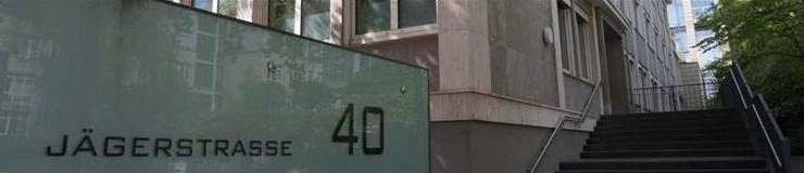 Jägerstraße 40 Stuttgart, BWIHK building